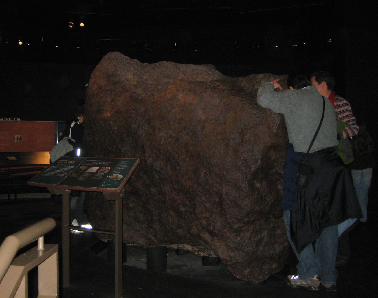 Ahnighito fragment of Cape York meteorite